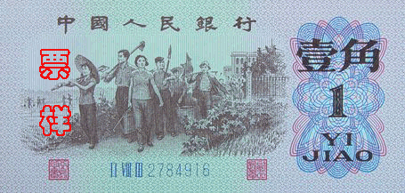 Third series of the renminbi 1jiao(sample)